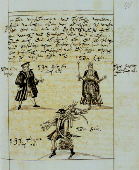 Canton of Zürich : «Die Drei Stände» in «Chronik der Herrschaft Grüningen» 1610